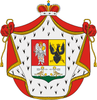 Obolensky